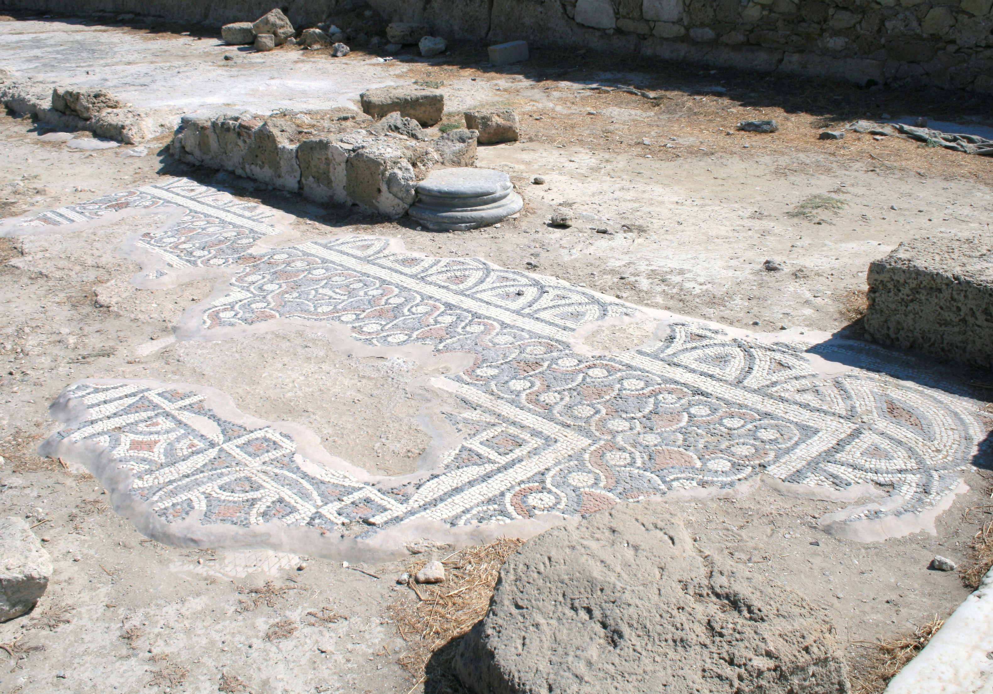 Fragment of a mosaic in the ruins of early Christian basilica in Hersonissos (Crete, Greece)